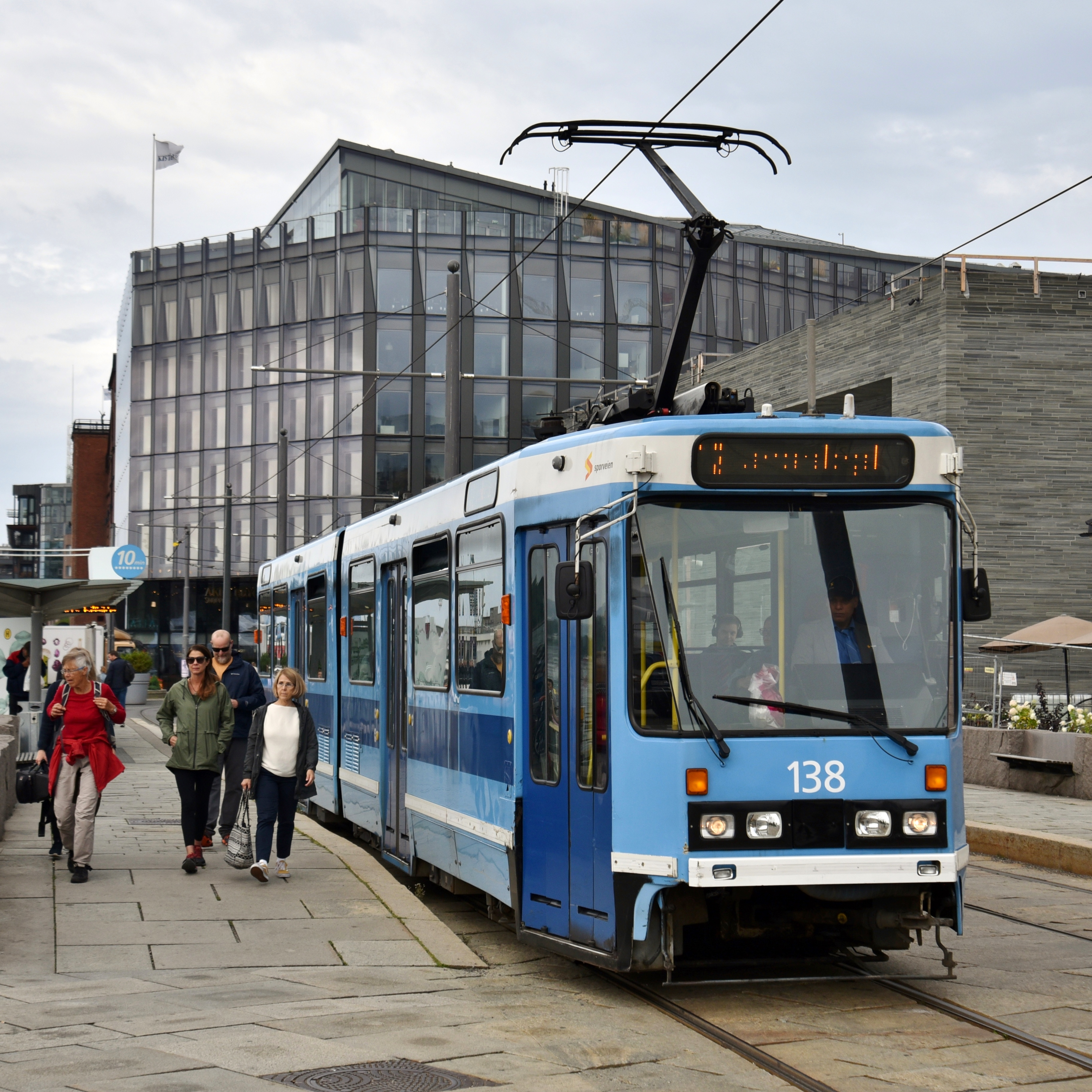 Sporveien Trikken SL79 tram no. 138 operating an Oslo tramway line 12 service at Aker Brygge tram station, Oslo, Norway